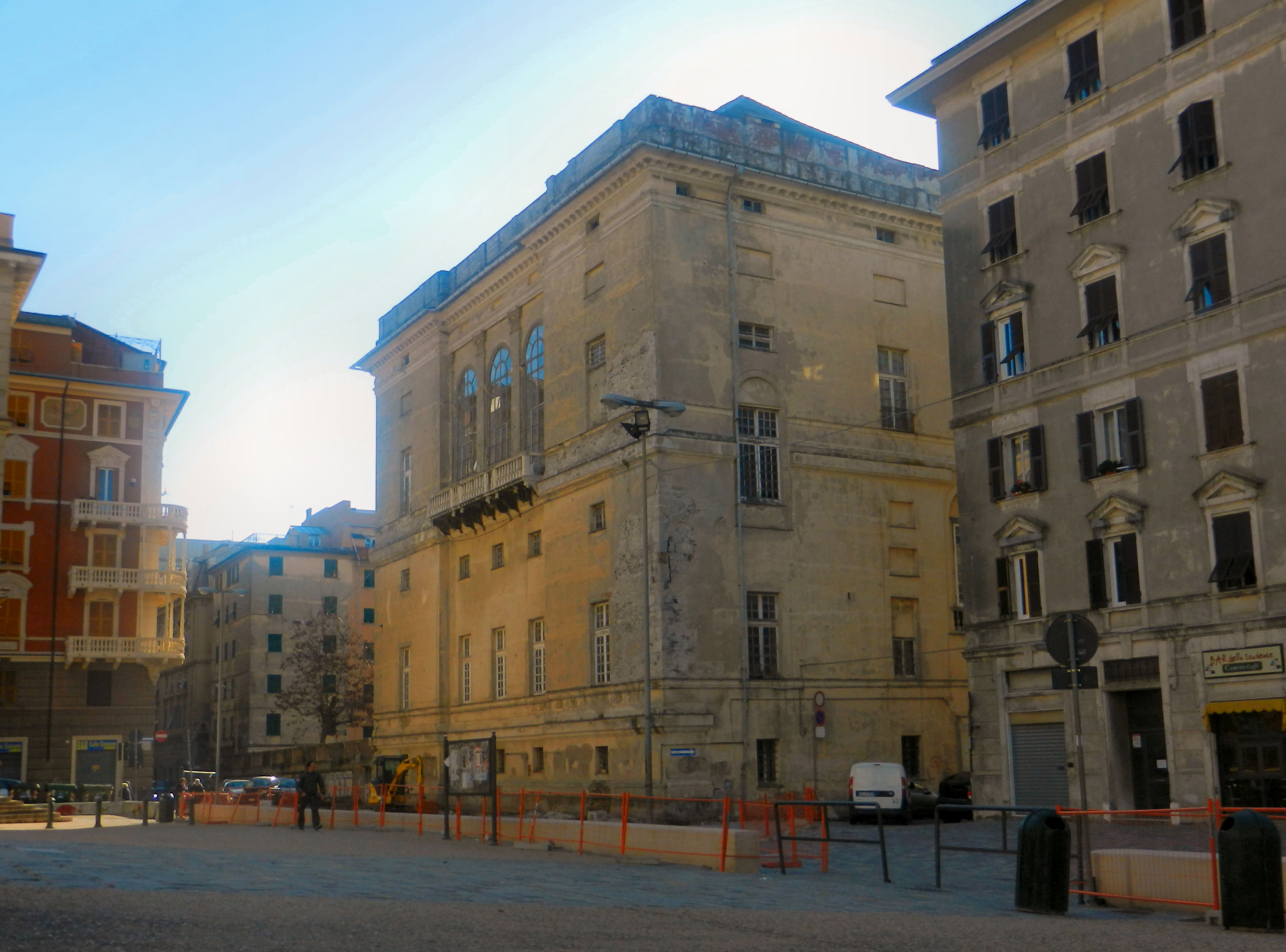 Genoa, Italy, quarter of Sampierdarena, villa Grimaldi said "la Fortezza" ("the fortress"), northern facade